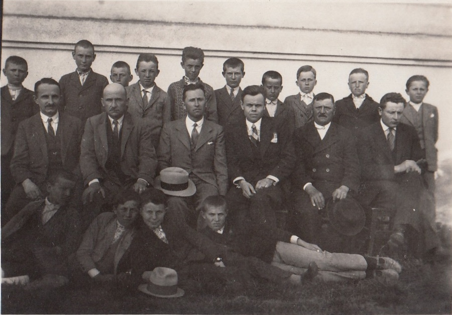 Students and teachers of the private hop farming school in Bački Petrovac (1931). Inventory Number 1795. Srpski (latinica): Učenici i profesori privatne hmeljarske škole u Bačkom Petrovcu (1931). Inventarski broj 1795.